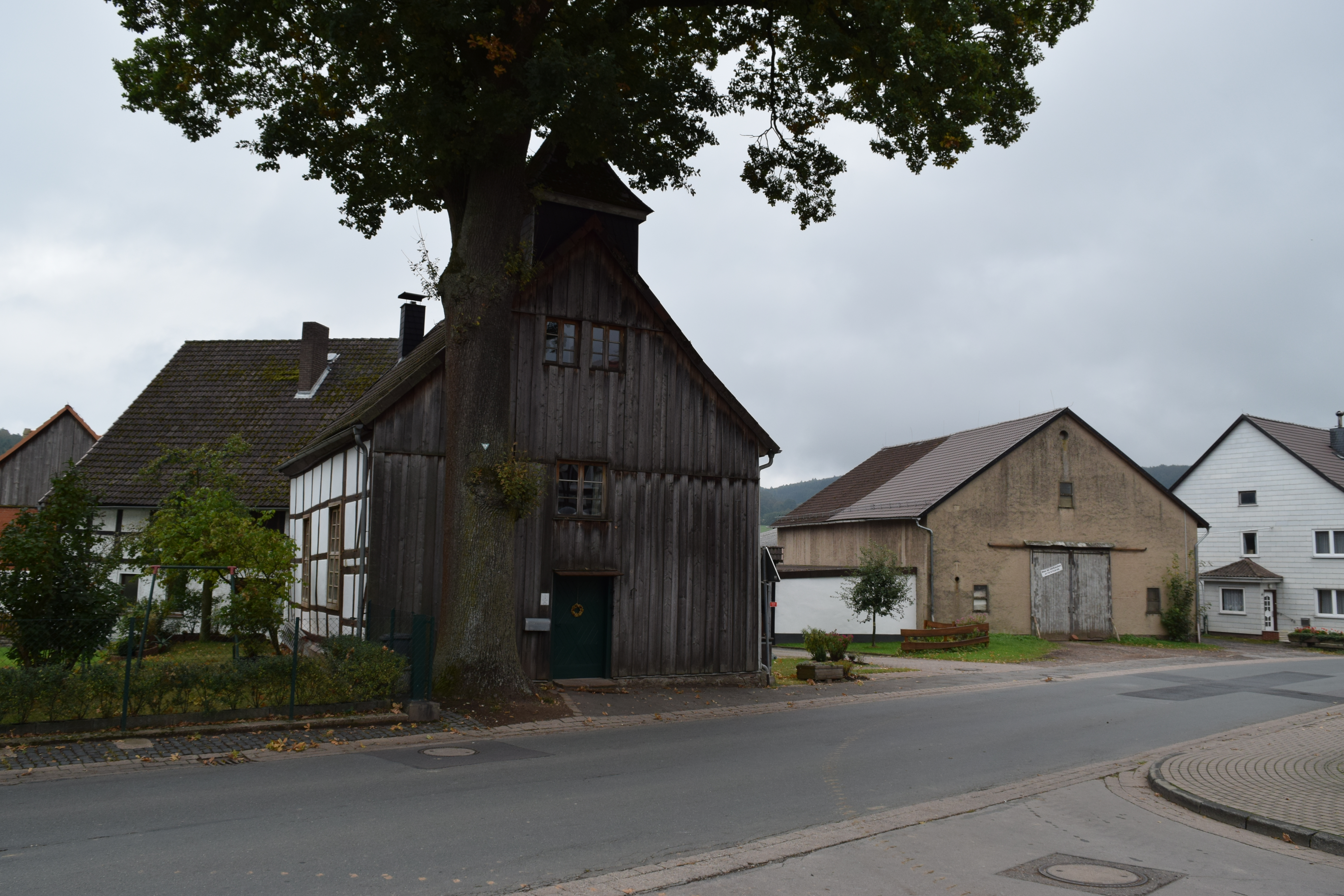 Chapel St. Anna in Lenne, a small village in Germany, Niedersachsen. The chapel was changed into a residential building.